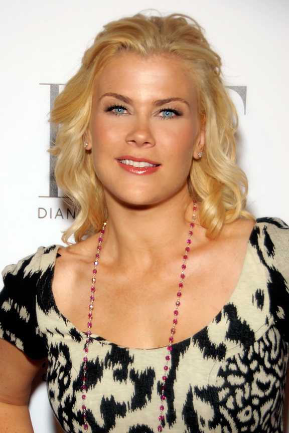 Alison Sweeney attending "Susan G. Komen's 8th Annual Fashion For The Cure" event - Hollywood, CA on Sept. 24, 2009 - Photo by Glenn Francis of